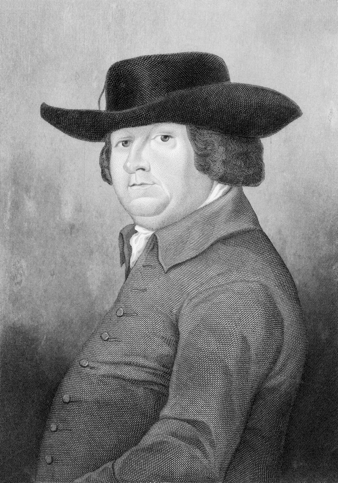 Robert Bakewell. Born at Dishley Grange, near Loughborough, in the Year 1726, Died Octr. 1, 1795, Aged 69 Years.